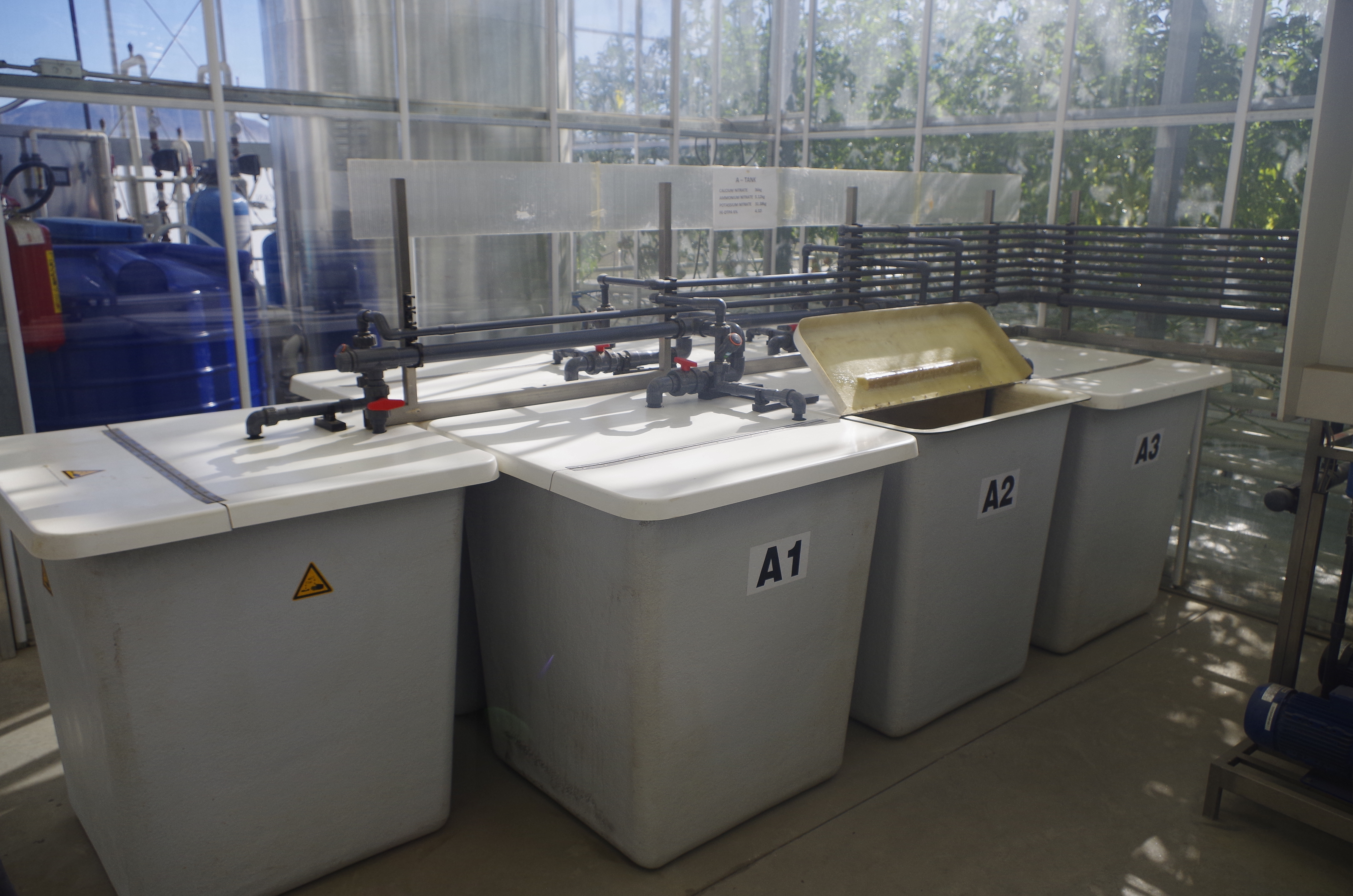 Balkan Green house facility in Ovce Pole, Macedonia